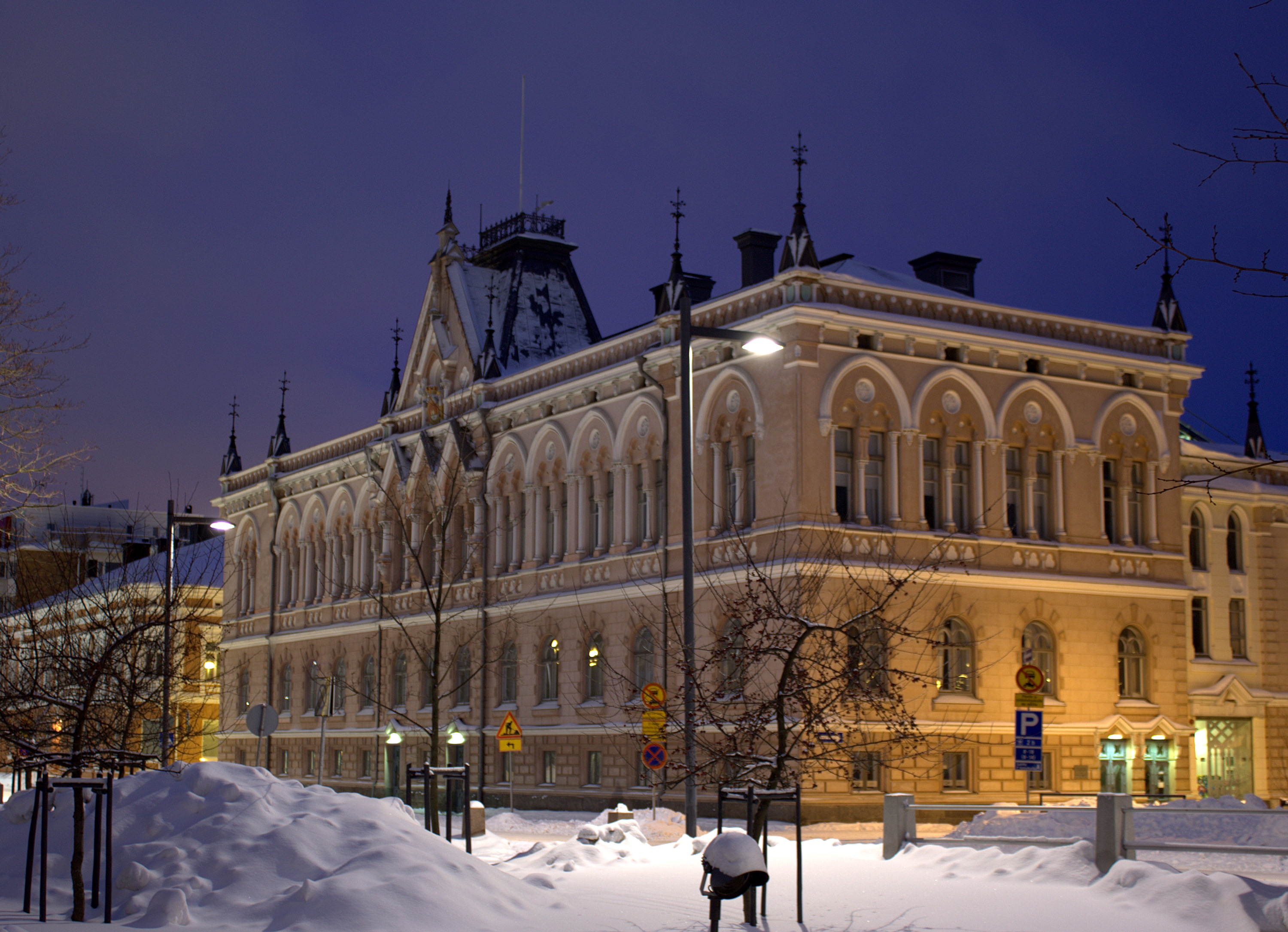 Cultural Centre Valve in Oulu, Finland. The building is a former town hall and former police station. It was first designed by Johan Ludvig Lybeck in 1884. It was extended in 1894 by architect group of Grahn-Hedman-Wasastjerna.